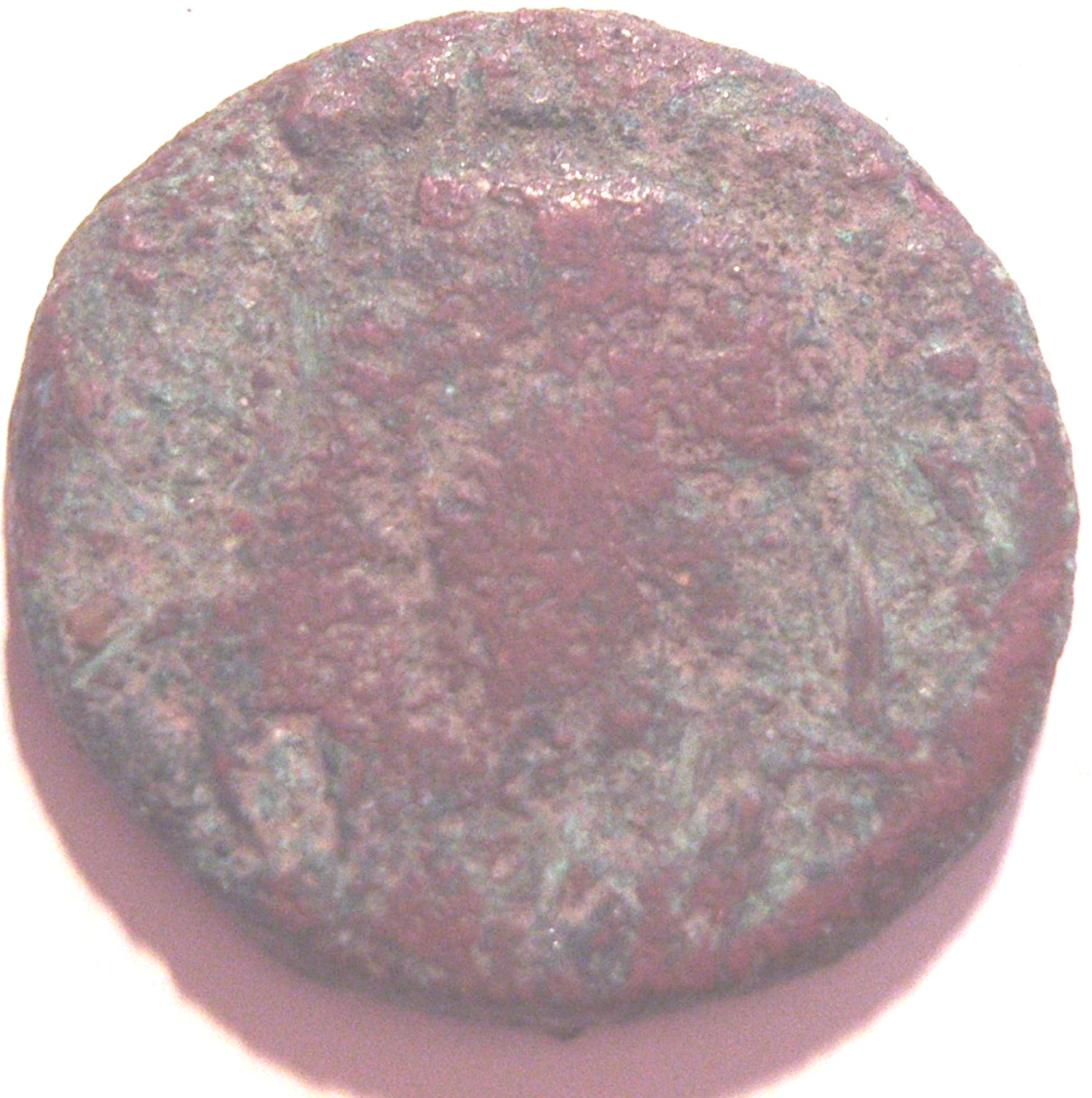 A digital photograph of a roman coin found at the site of Bannaventa in the county of Northampton, in the collection of Stavros1 (talk) 01:42, 25 January 2008 (UTC) and picture taken by Stavros1 (talk) 01:42, 25 January 2008 (UTC)